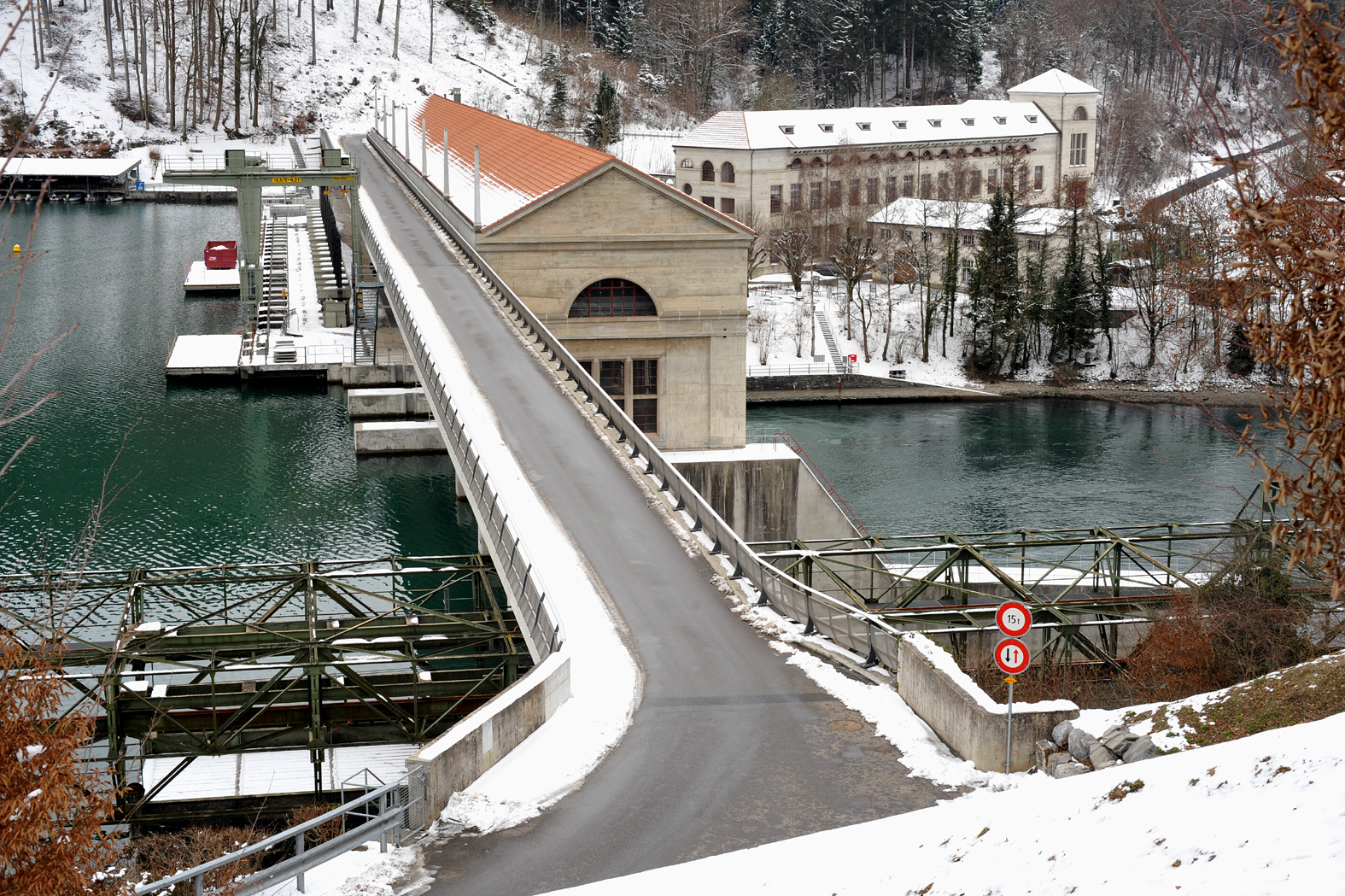 Bridge over the dam of the Wohlensee (Aar) near Mühleberg; Berne, Switzerland.